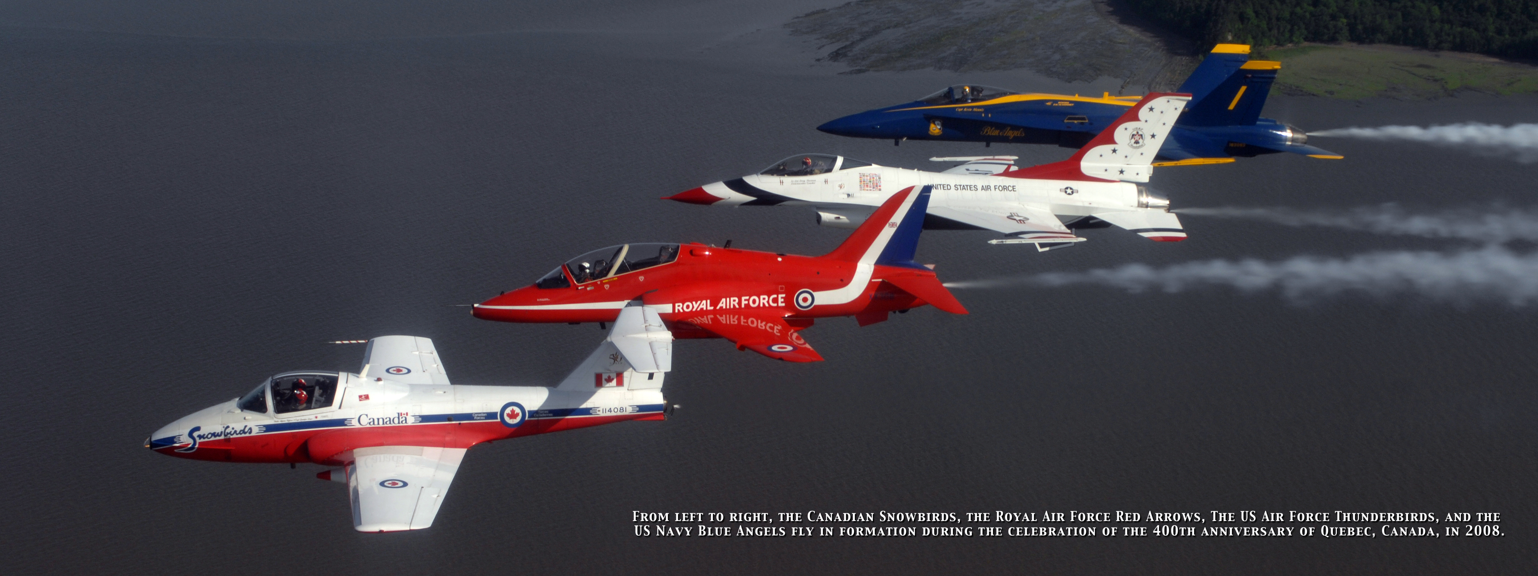 Four ship formation. From left to right: The Canadian Snowbirds, The Royal Air Force Red Arrow, the USAF Thunderbirds, The US Navy Blue Angels in formation during the celebration of the 400th anniversary of Quebec.